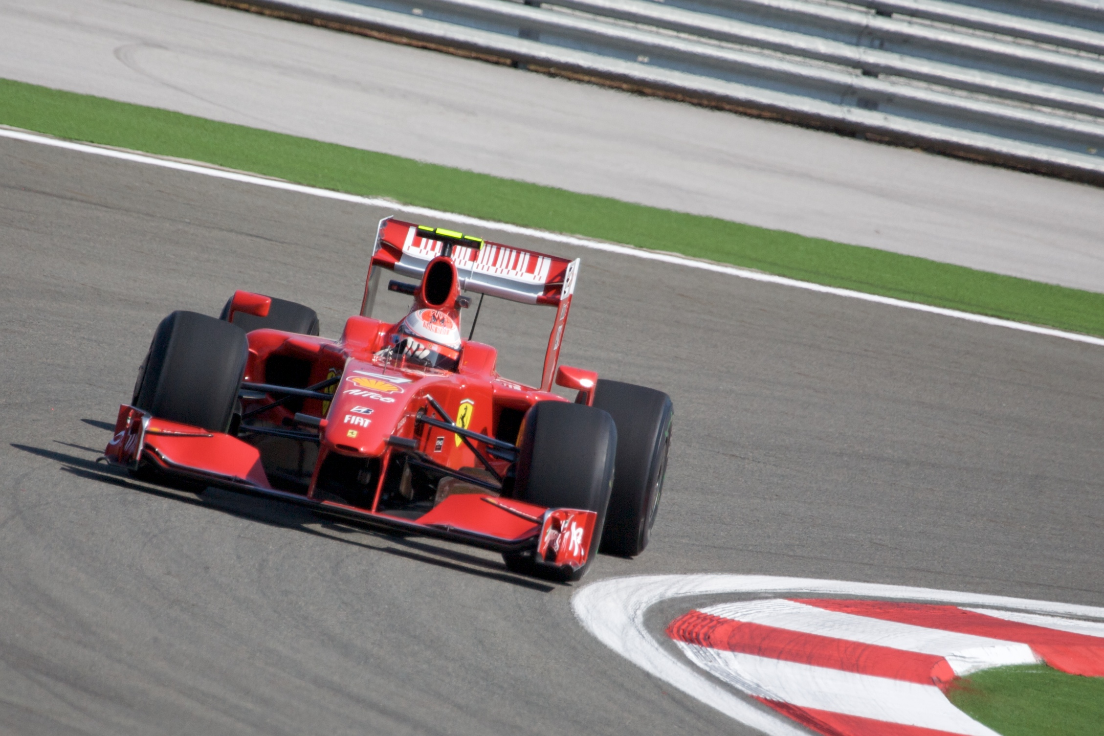 Kimi Räikkönen driving for Scuderia Ferrari at the 2009 Turkish Grand Prix.